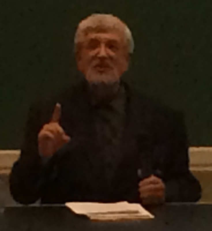 American music critic and musicologist Richard Taruskin delivering a keynote address at EuroMAC2014, the Eighth European Music Analysis Conference, in Leuven, Belgium.